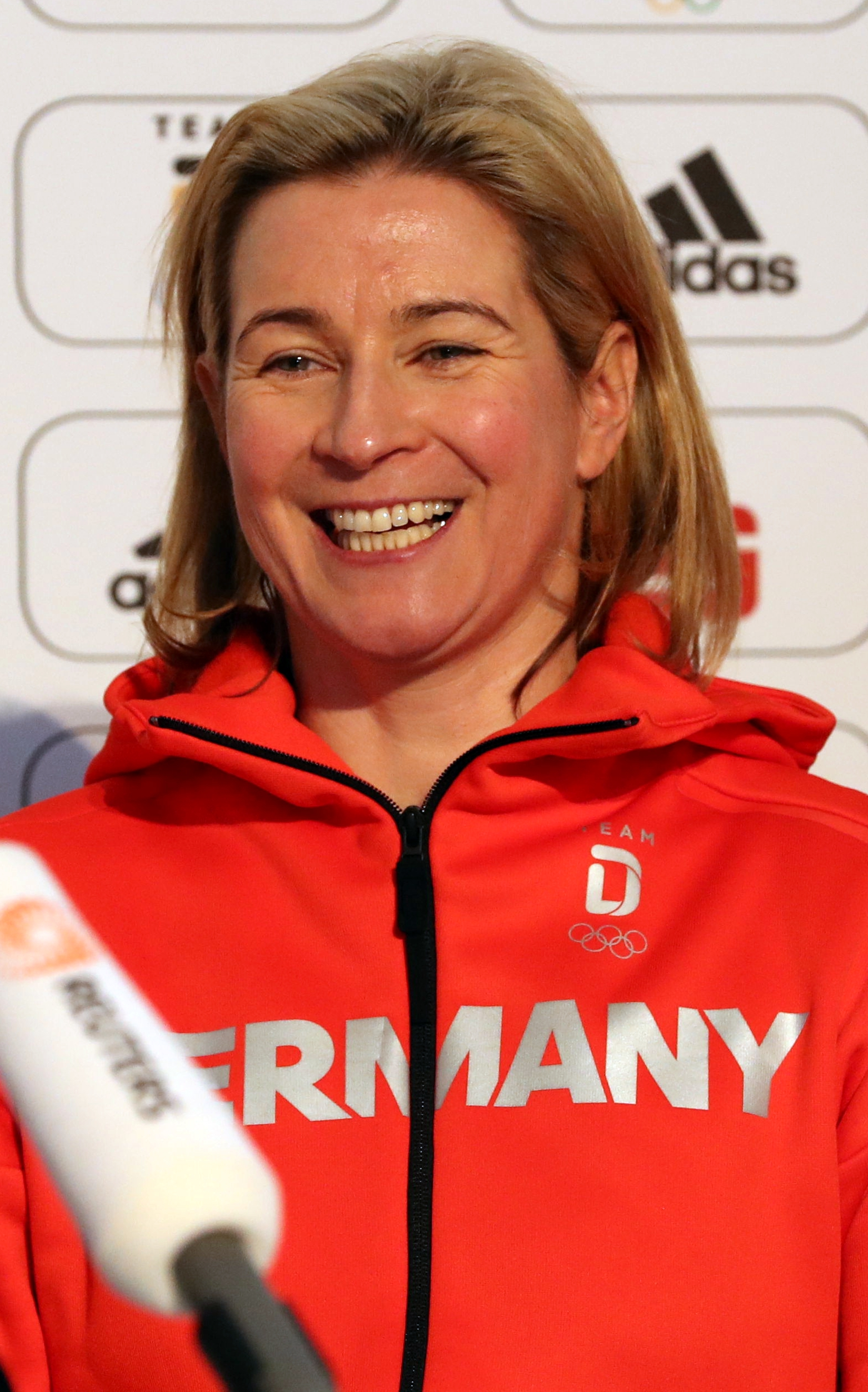 Investiture of the German team for Winter Olympics 2018 in Pyeonchang: Claudia Pechstein